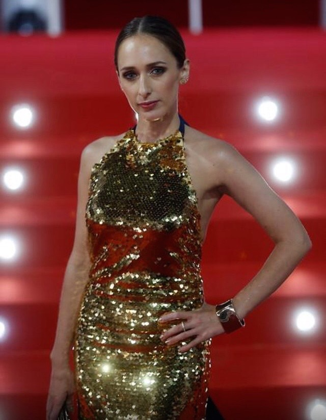 Andrea Velasco at "The 33" movie premier in Chile.